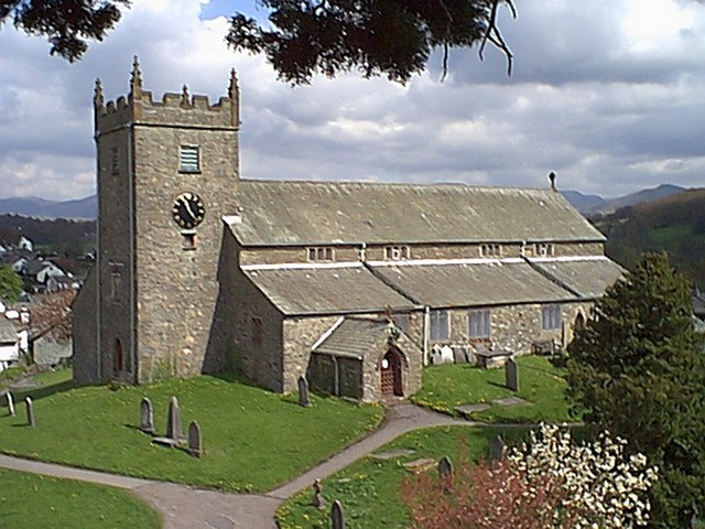 Hawkshead Church The Church of St Michael and All Saints, Millennium Spring.